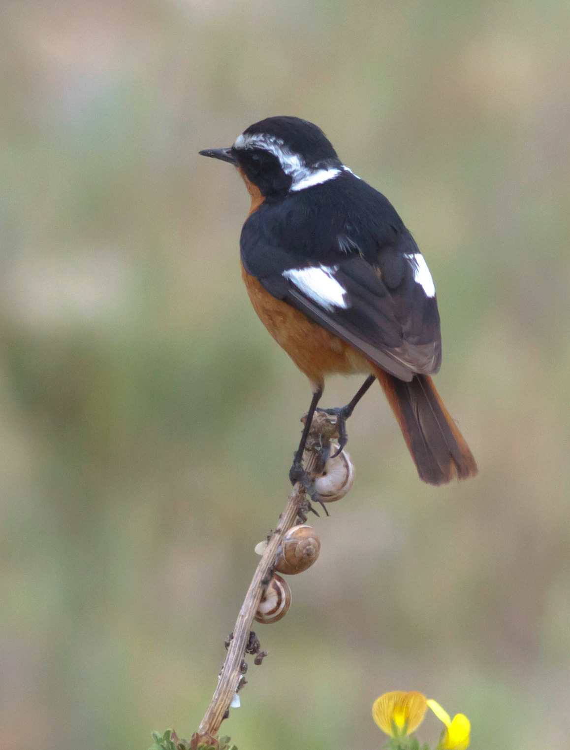 Moussier's redstart (Phoenicurus moussieri), Souss Massa National Park near Agadir, Morocco